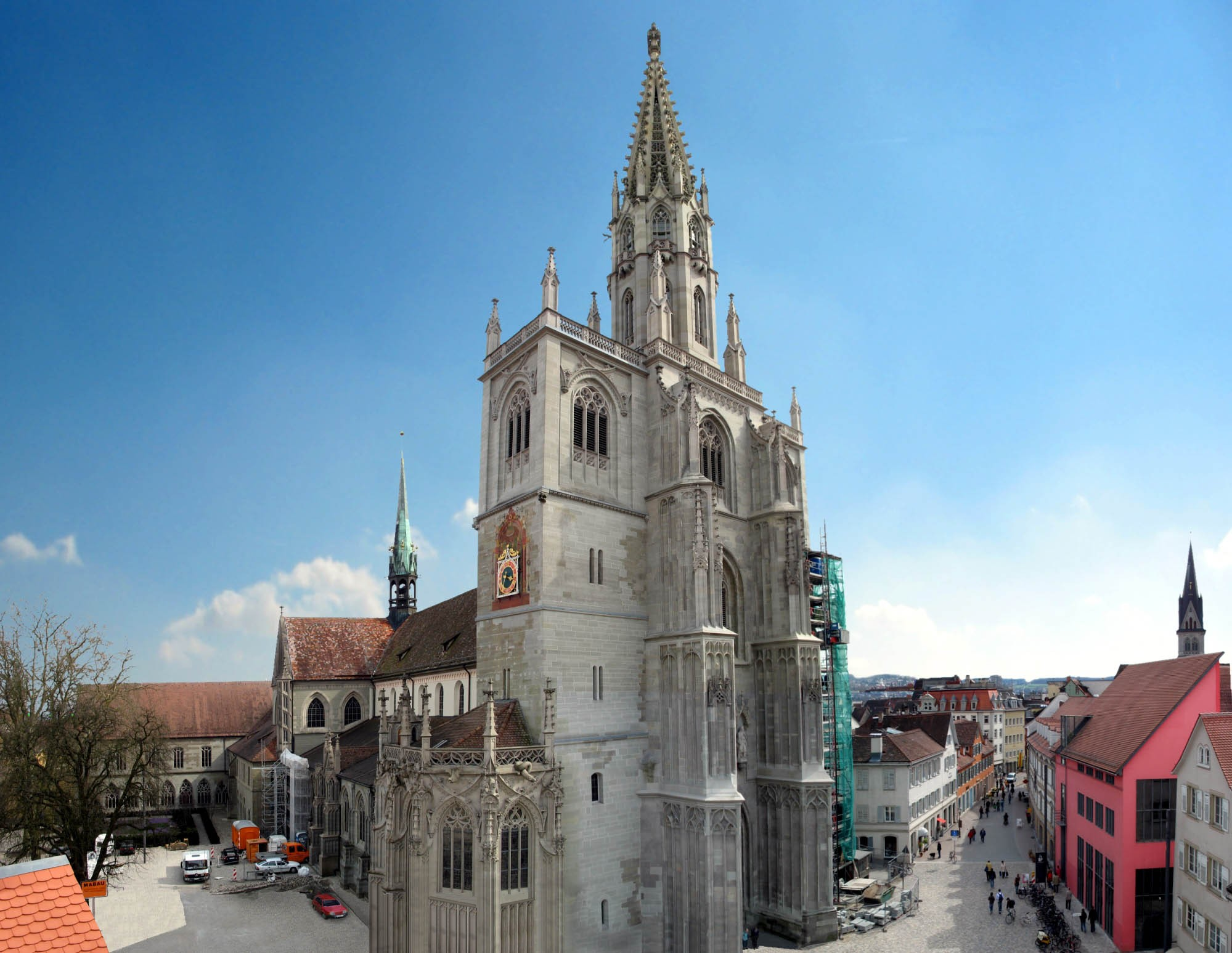 Cathedral of Konstanz and its surroundings, seen from North West. Stitched together from several photos. This is a retouched picture, which means that it has been digitally altered from its original version. Modifications: Retouched Version of Image:MPano 07.jpg. Modified by DER UNFASSBARE and Snorky, who added some fictitious details in lower left corner to remove blank space.